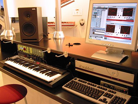 Waldorf Music Frankfurt Music Fair booth 2003 (detail). Photo by Till Kopper (ich at till-kopper dot de)